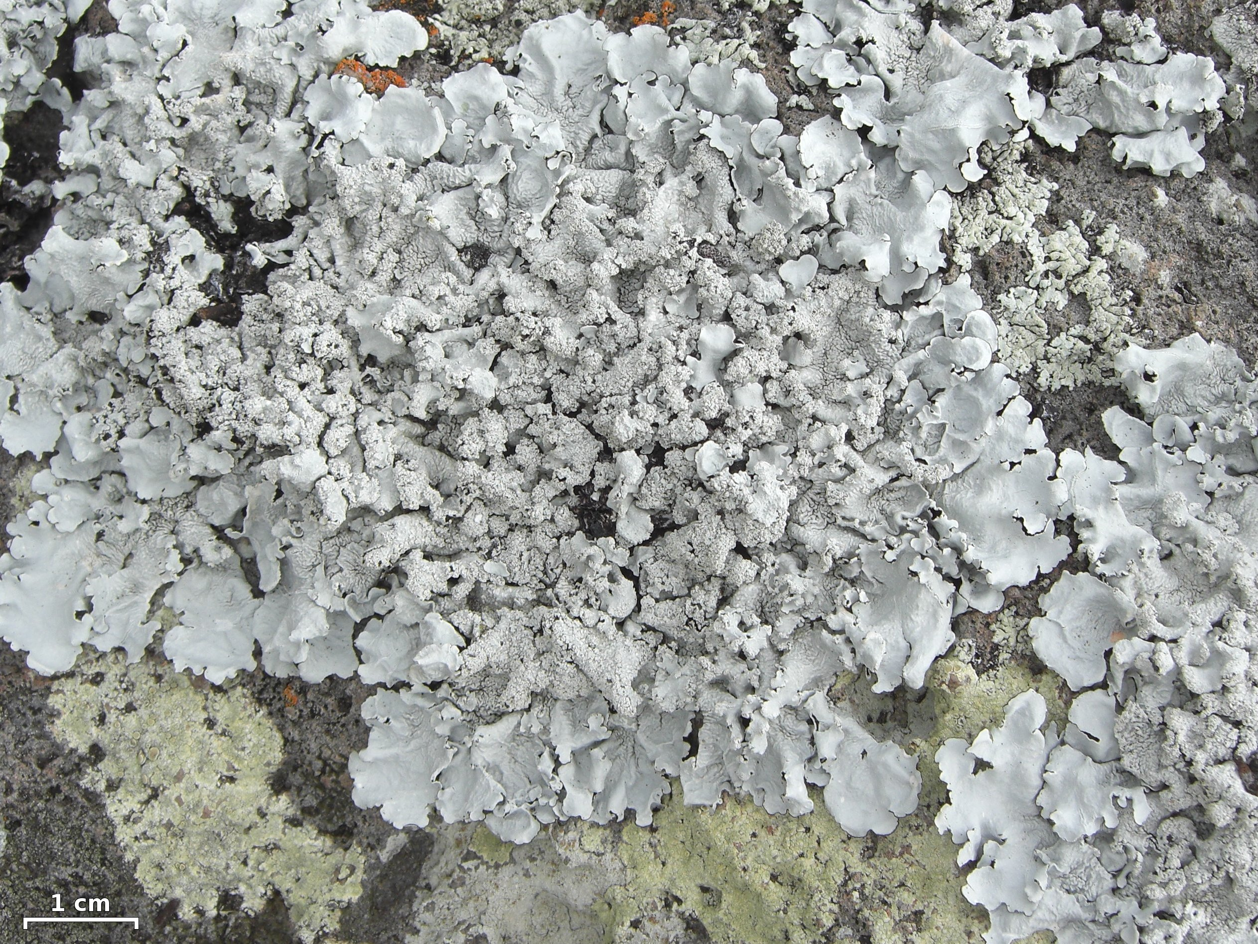 Canoparmelia raunkiaeri (Vain.) Elix Image location: Fondeadero, Santa Fe Island, Galápagos, Ecuador on rock Recognized by sight For more information about this, see the observation page at Mushroom Observer.